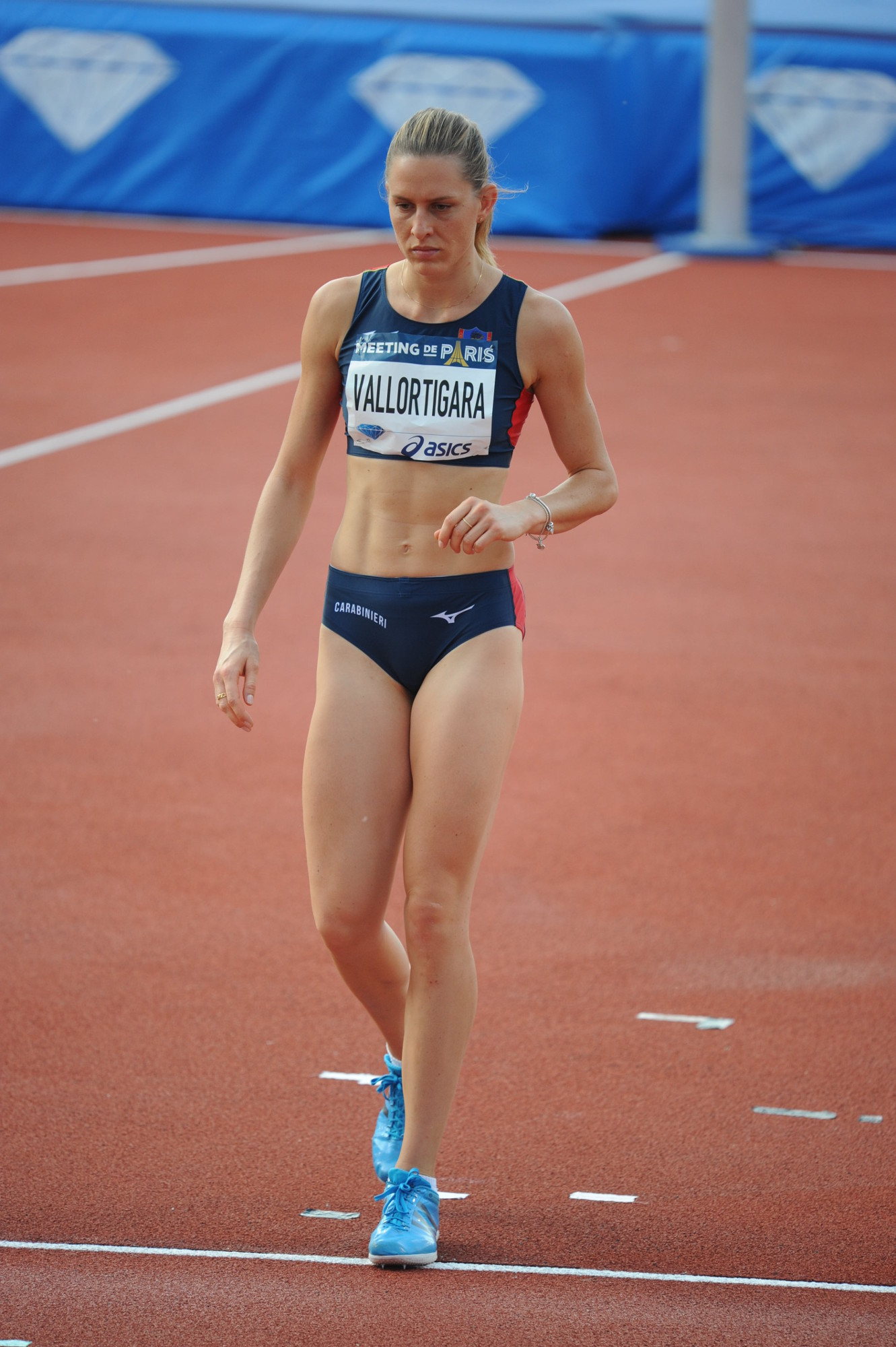 Elena Vallortigara (high jump) "Diamond League" Meeting of Paris 2018/06/30